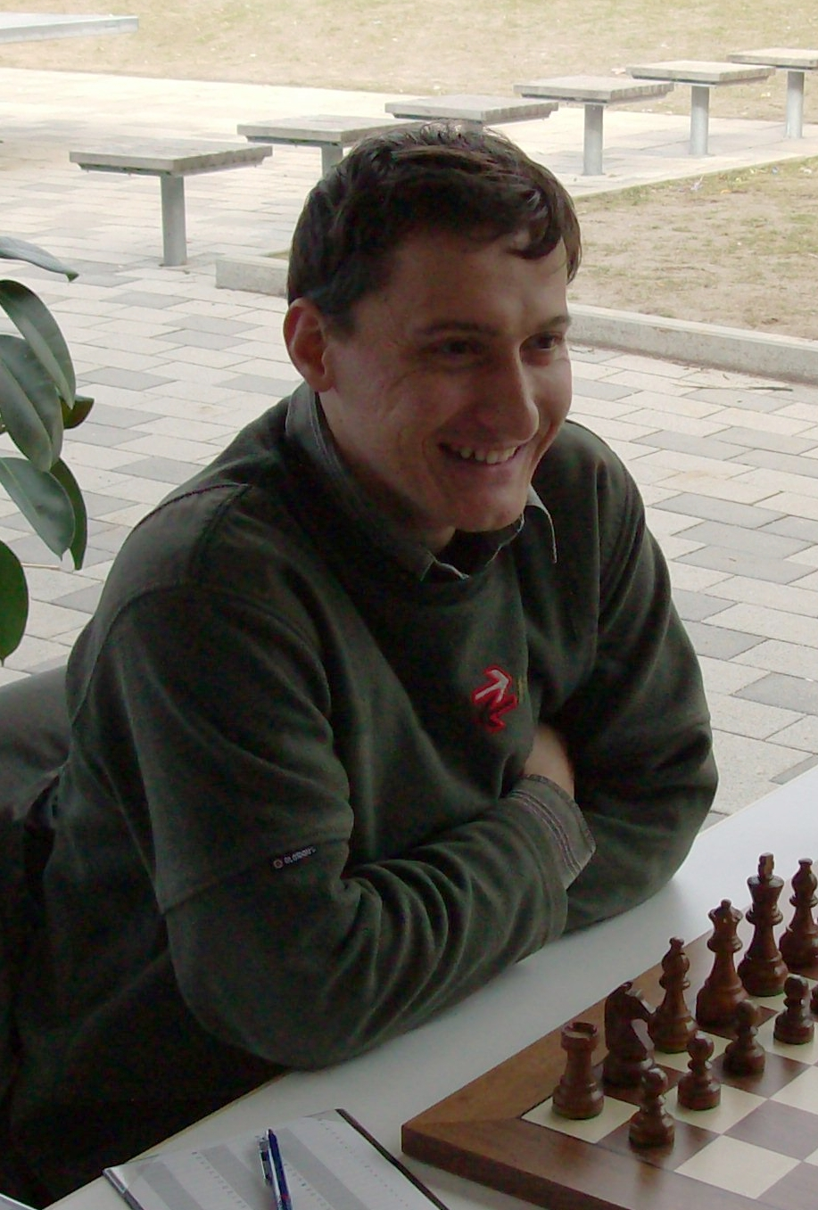 Ferenc Berkes, Hungarian chess grandmaster